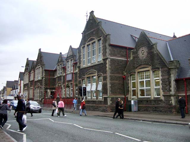 School, Albany Road Albany Primary and Nursery school; formerly Albany Road Board School,1886. This is the main street in a busy residential area at the lower end of the housing market.